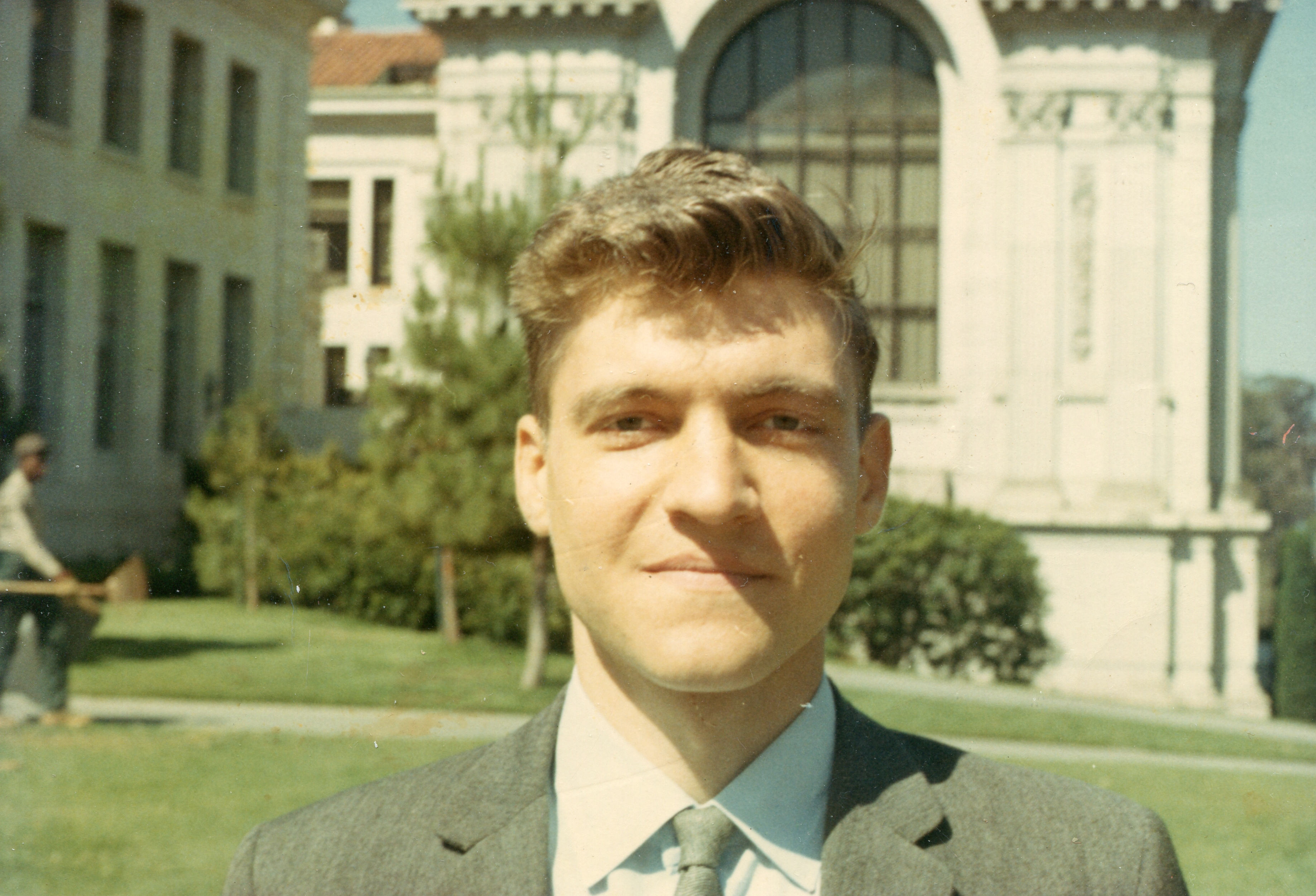 Theodore Kaczynski, American mathematician of Polish descent, at UC Berkeley (Berkeley, California) in 1968; Doe Library would be seen in background; Bancroft Library, at left